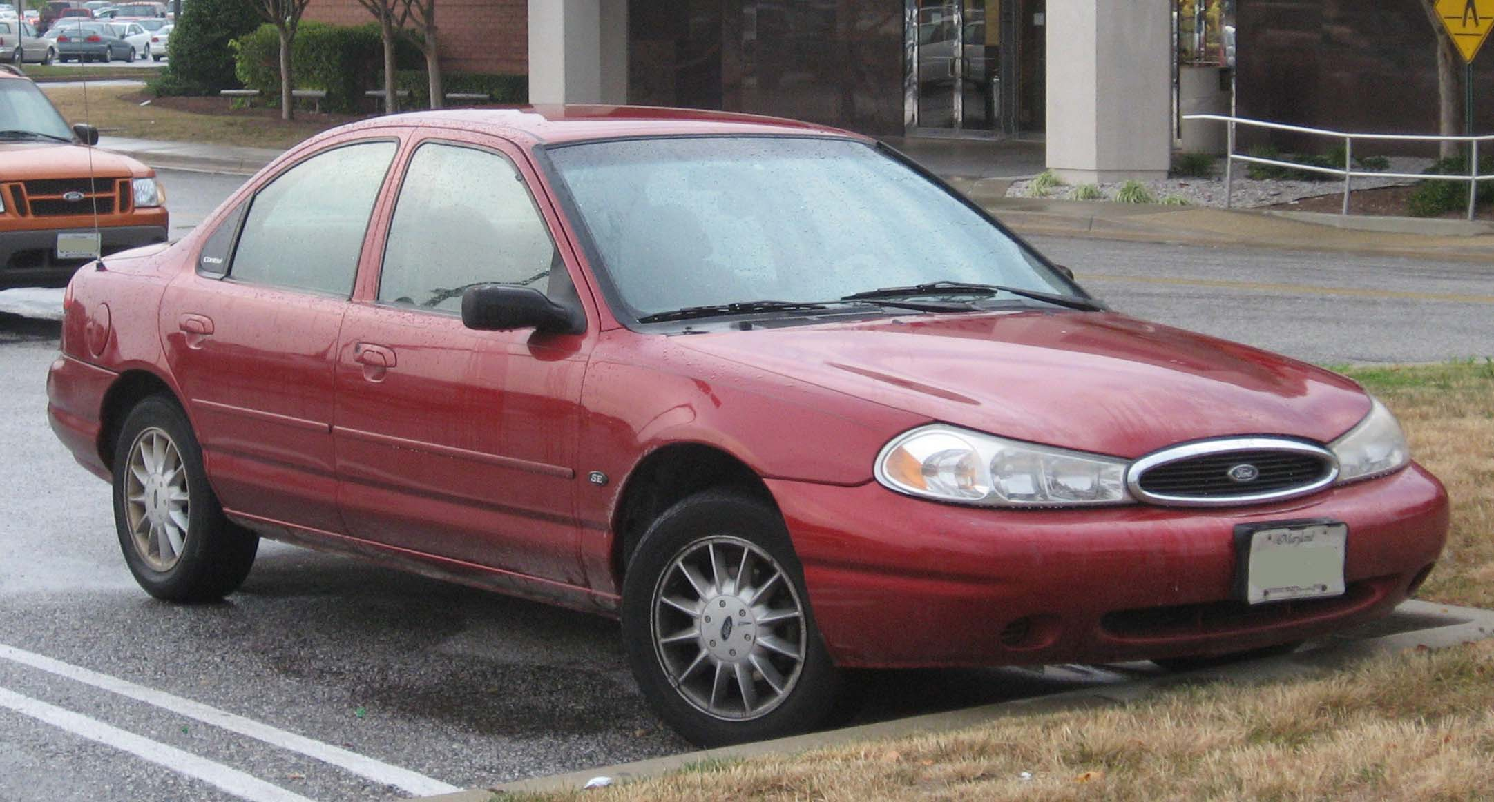 1998-200 Ford Contour photographed in USA.